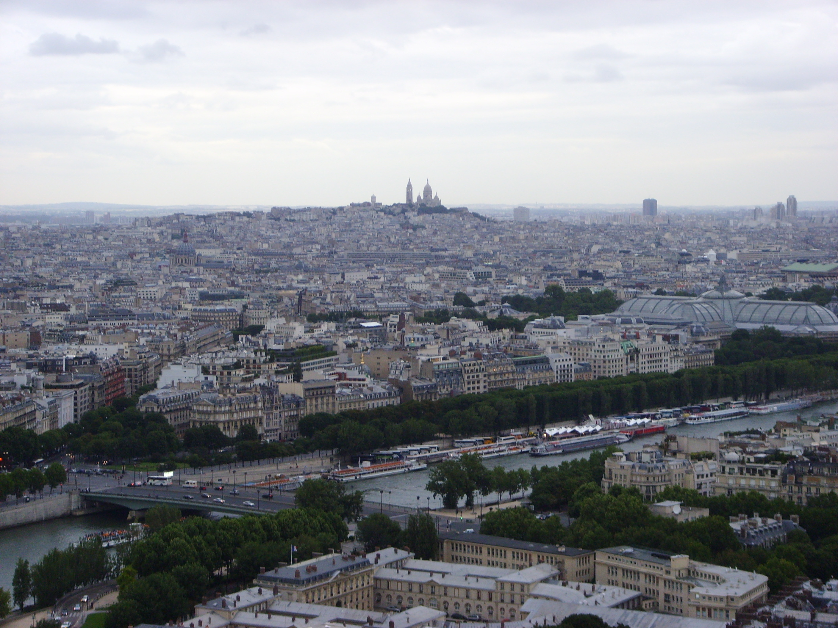 View from the Tour Eiffel, Paris